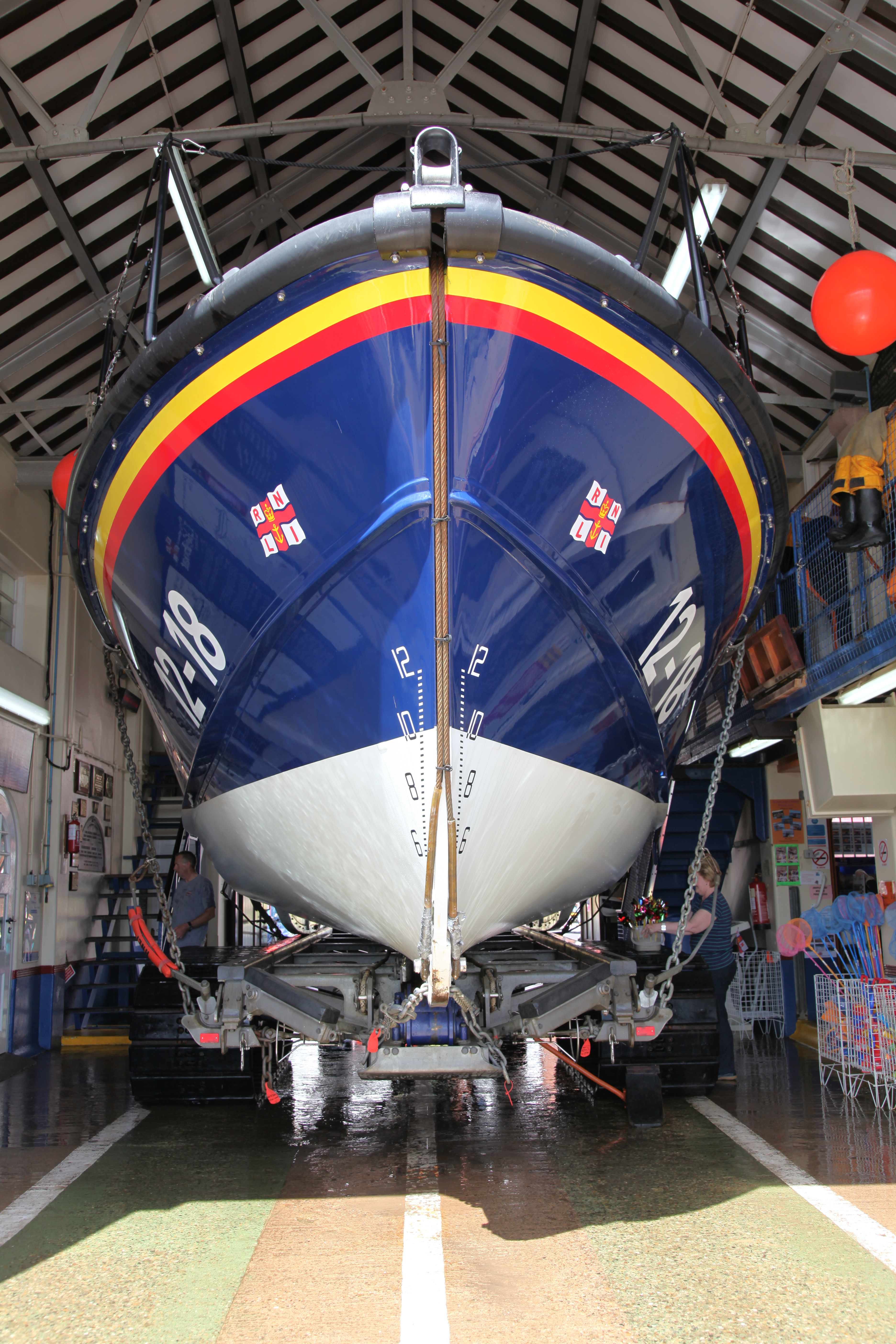 The Scarborough RNLI lifeboat in its station. This is a photograph of the bow.